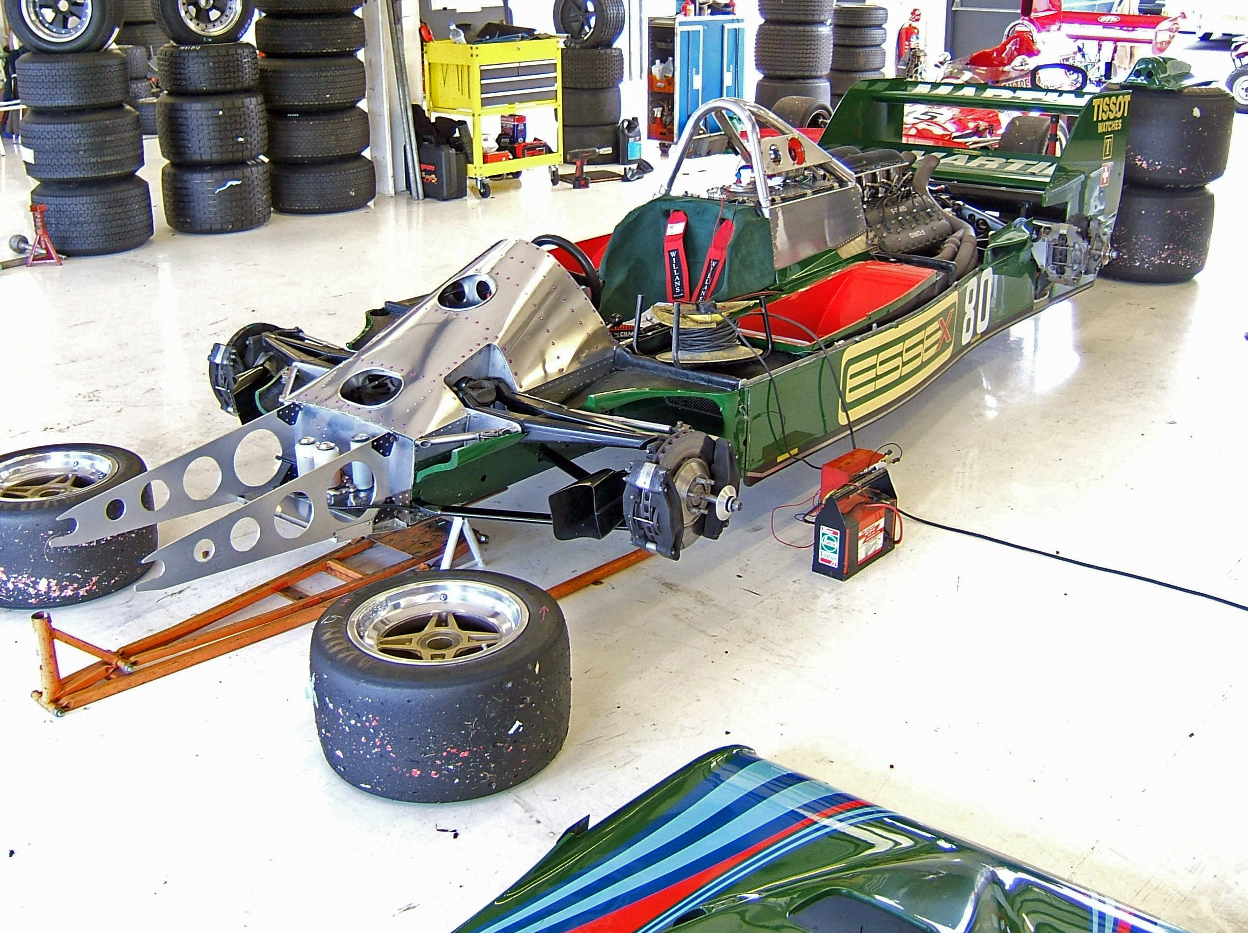 A Lotus 80 with much of its bodywork removed, sitting on stands in the Silverstone pit garages during the Silverstone Classic race meeting, July 2007.